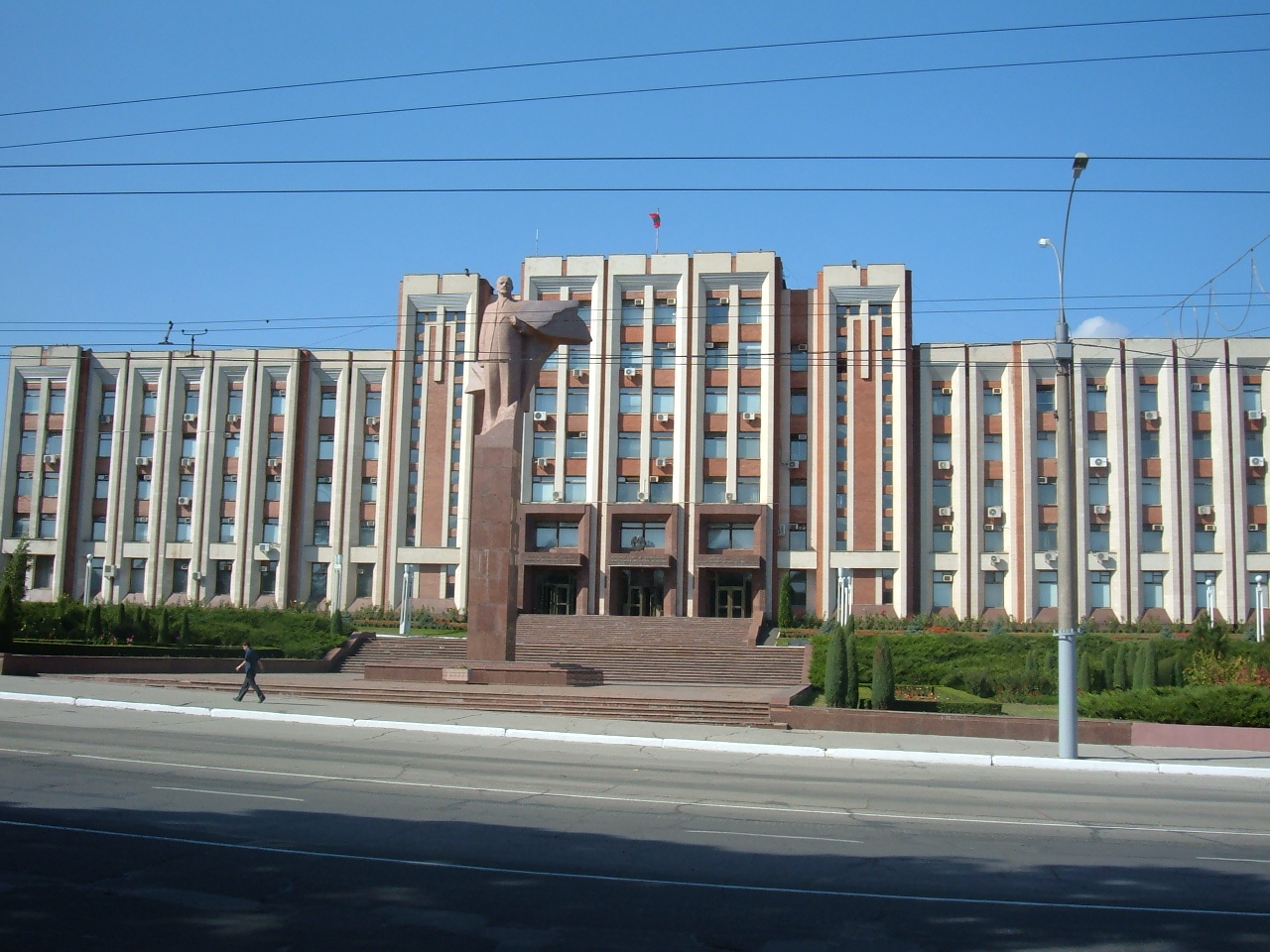 Tiraspol, Moldova (Transnistria), Transnistria government building